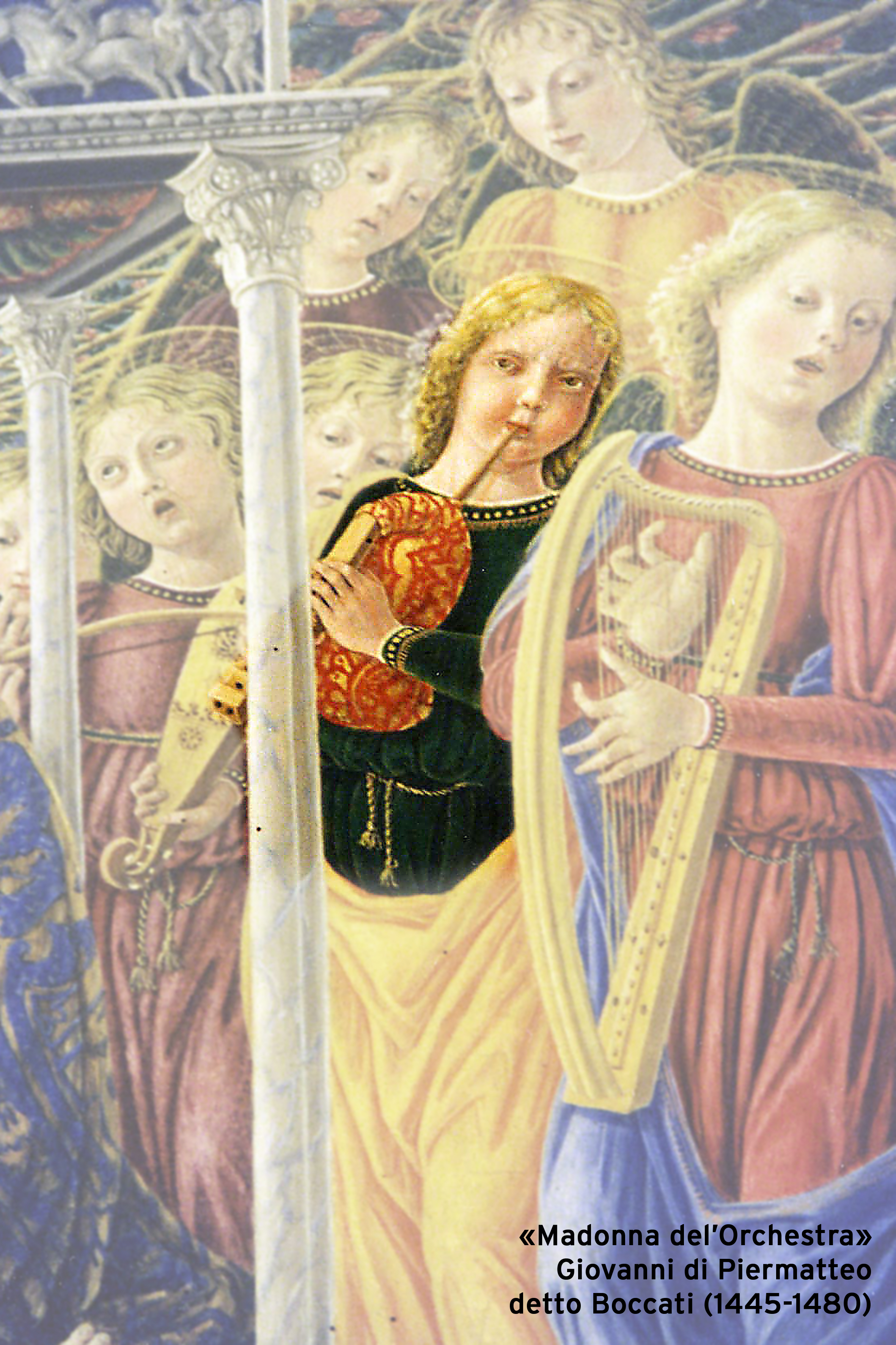 Detail - Madonna dell'orchestra - Boccati